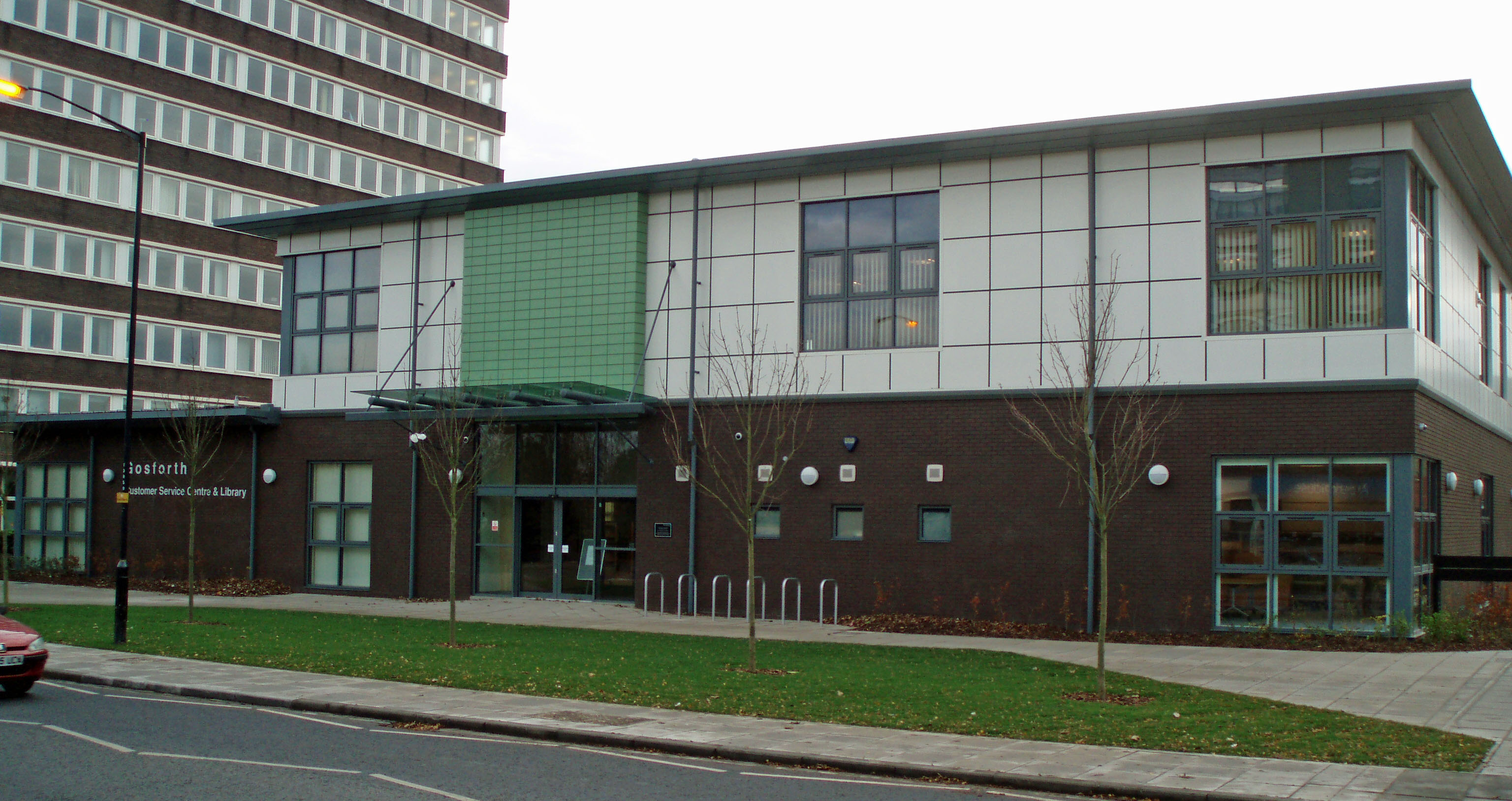 This is a photograph of the 2007 Gosforth Library and customer service centre, Gosforth, Newcastle upon Tyne, England